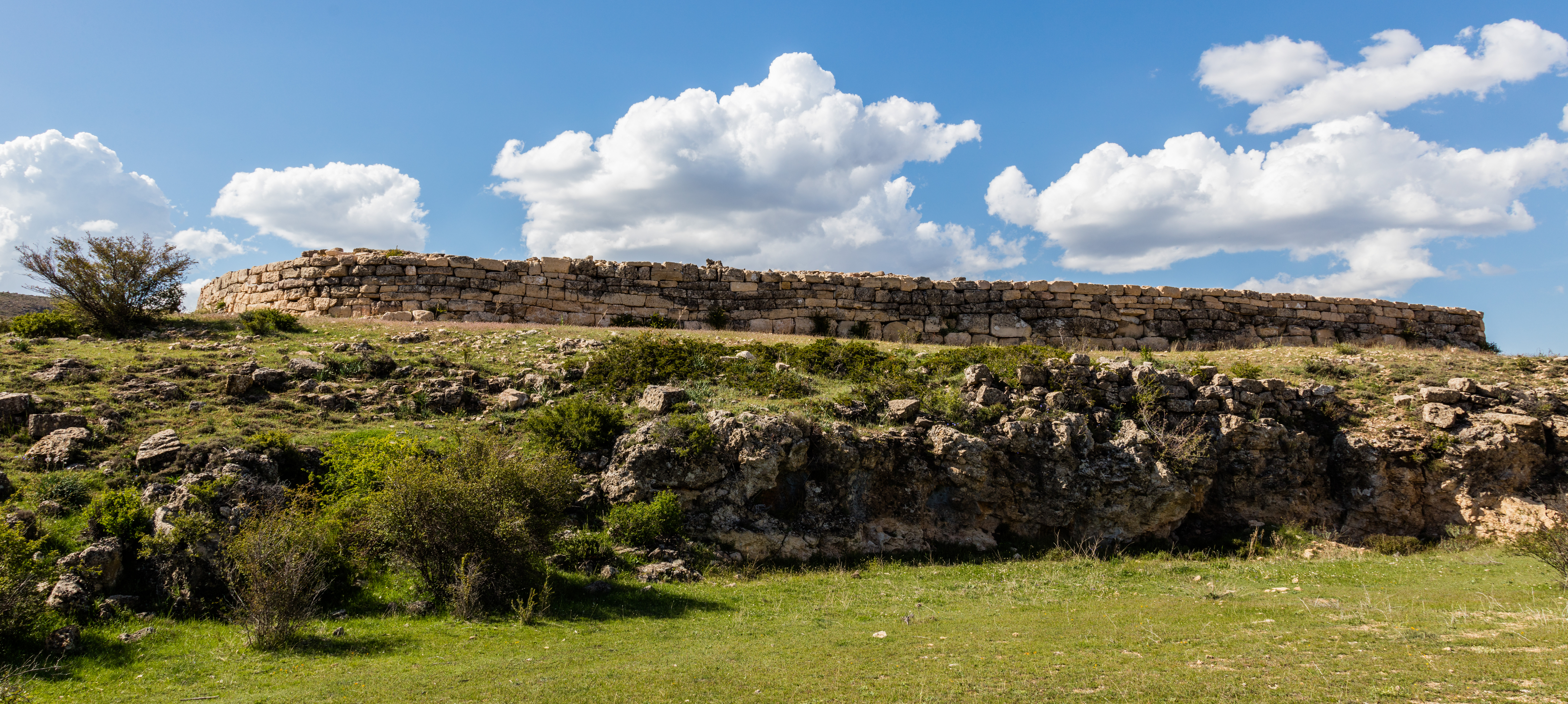 Castil de Griegos, Checa, Guadalajara, Spain